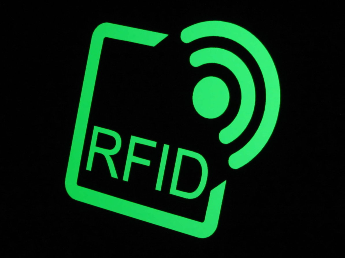 The EU-wide RFID logo to show to the consumer devices that use Radio-Frequency Identification (RFID) smart chips and systems and comply with EU regulations. Source